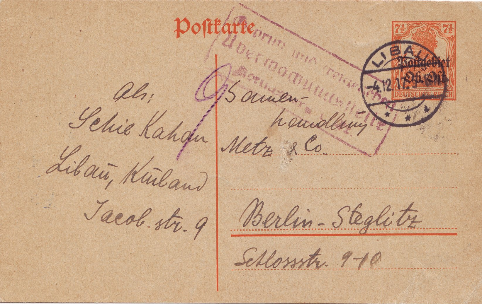 Scan of postcard from Libau (Russian territory occupied by Germany) to Berlin, 4 December 1917.